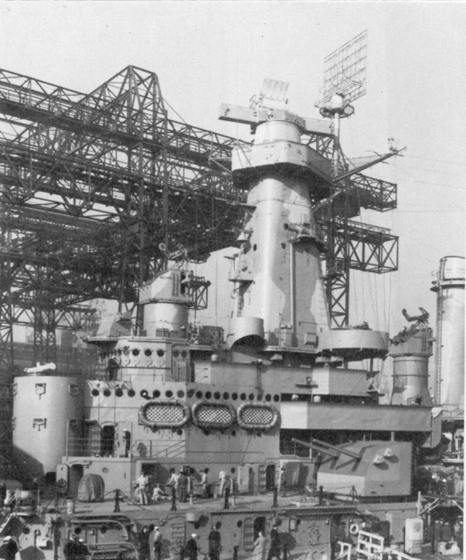 Port side view of bridge structure with a twin 5-Inch mount at lower right. Note radar antennas.